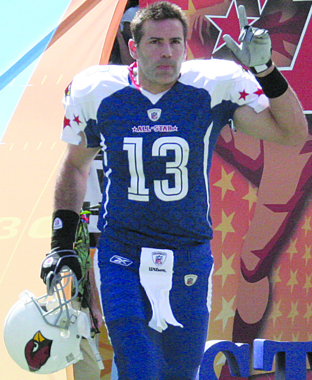 Kurt Warner waves to the 50,000 in attendance at the NFL Pro Bowl Sunday as he and the rest of the NFC Champion Arizona Cardinals were introduced. Warner was the starting quaterback for the NFC team.